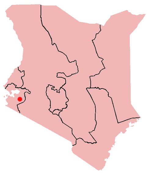 Kisii, Kenya Location Map; created with the GIMP